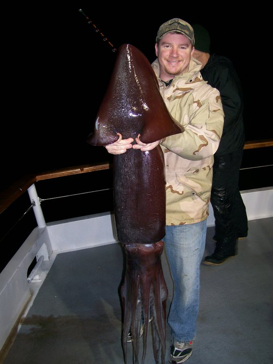 A 52lb Humboldt squid caught off of the Southern California coast.